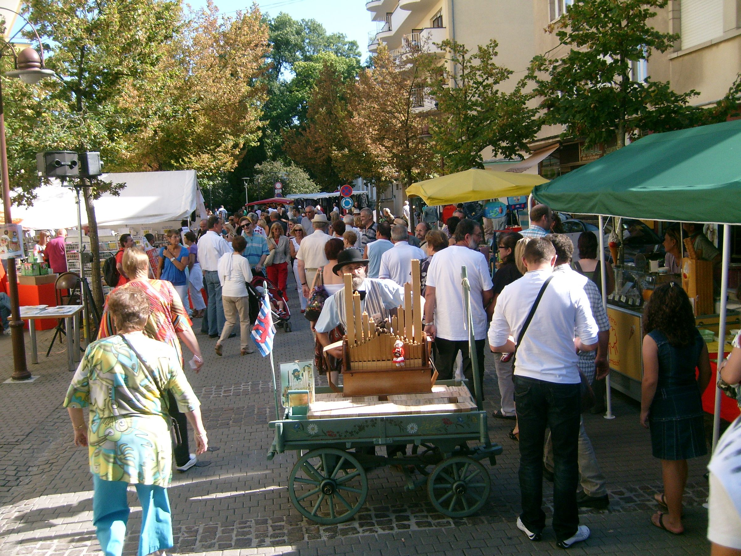 The year market called "Braderie" in Mondorf-les-bains, Luxembourg. Here the Avenue des bains.